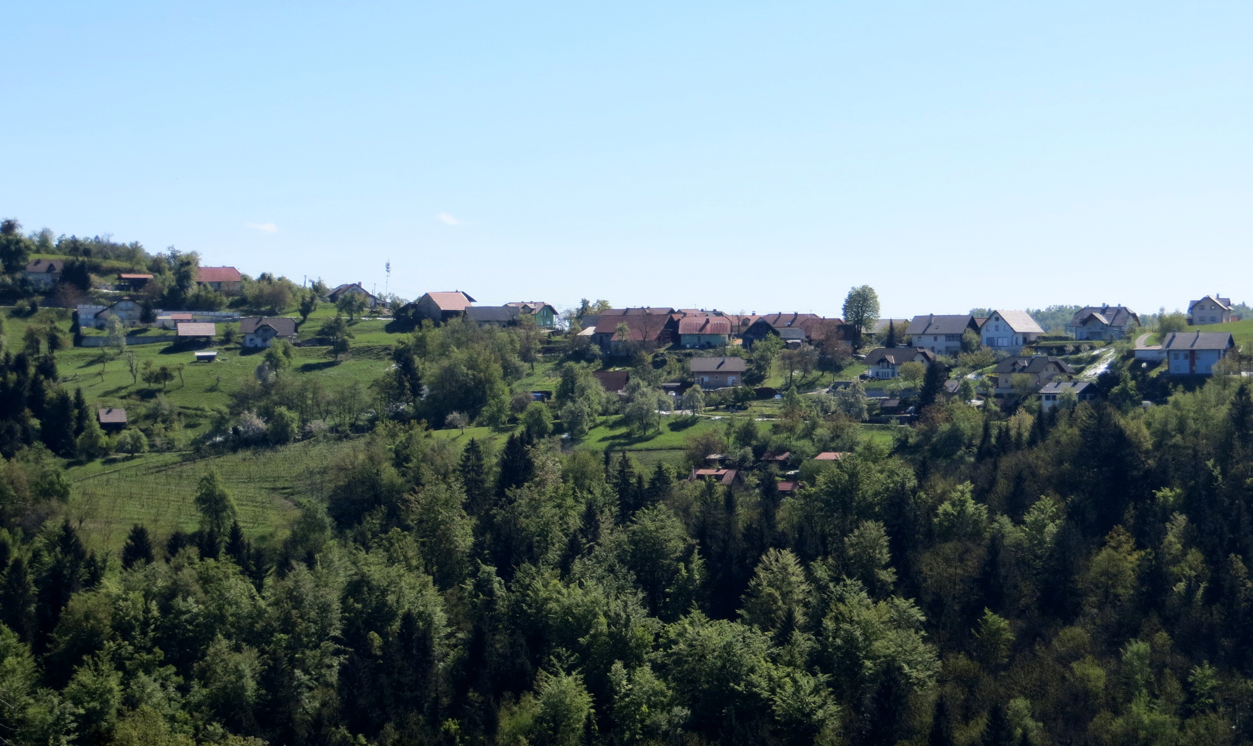 Gabrje pri Jančah, City Municipality of Ljubljana, Slovenia